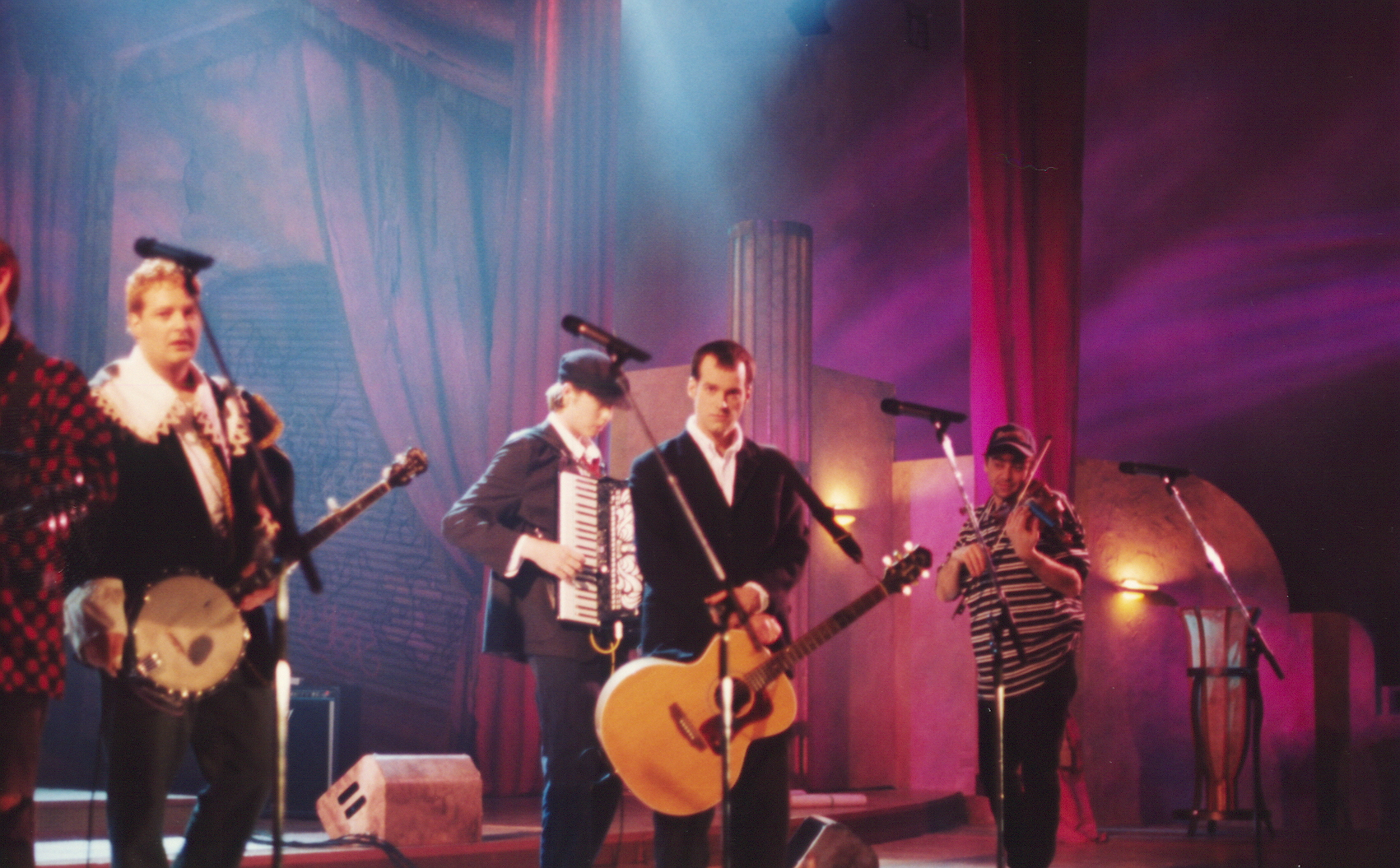 Jimmy George on the set of Rita & Friends CBC TV